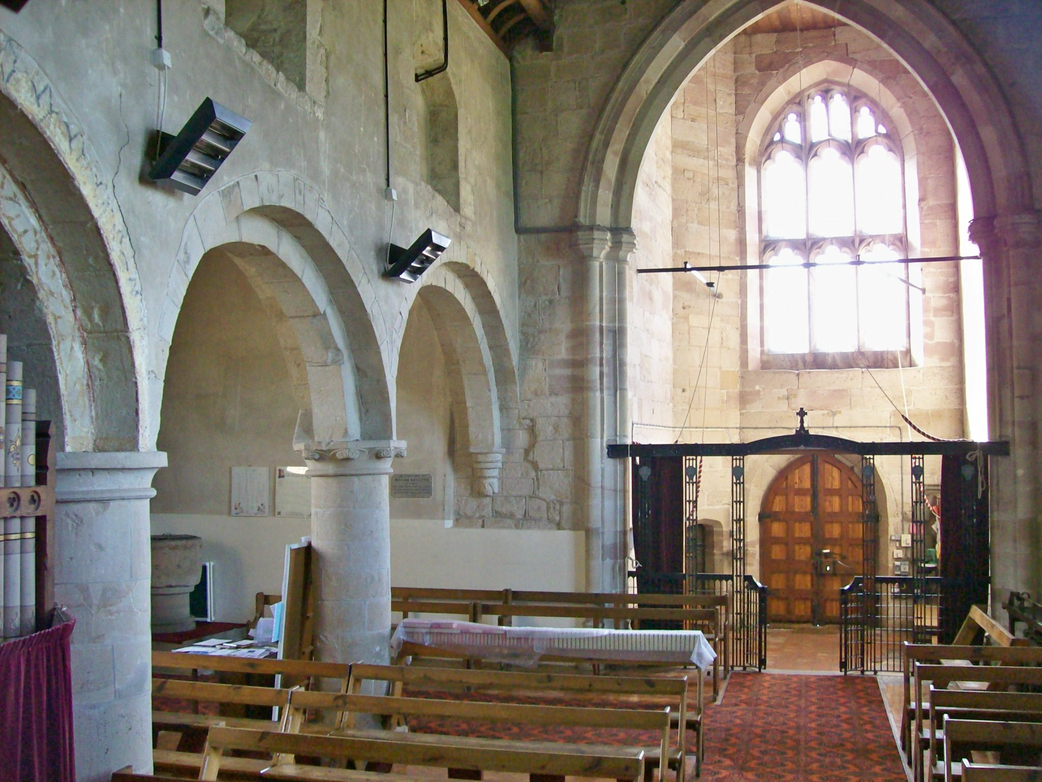 St. Andrew, Cubley, interior- looking SW